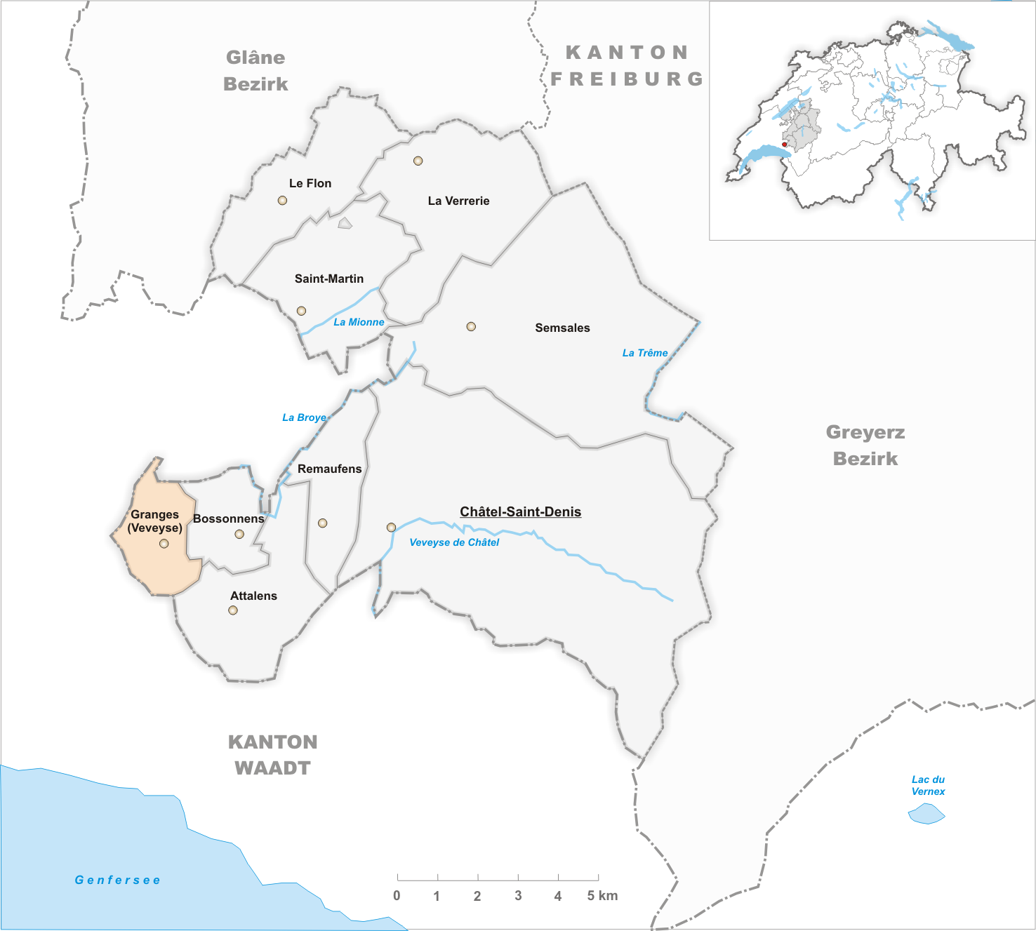 Municipality Granges (Veveyse)